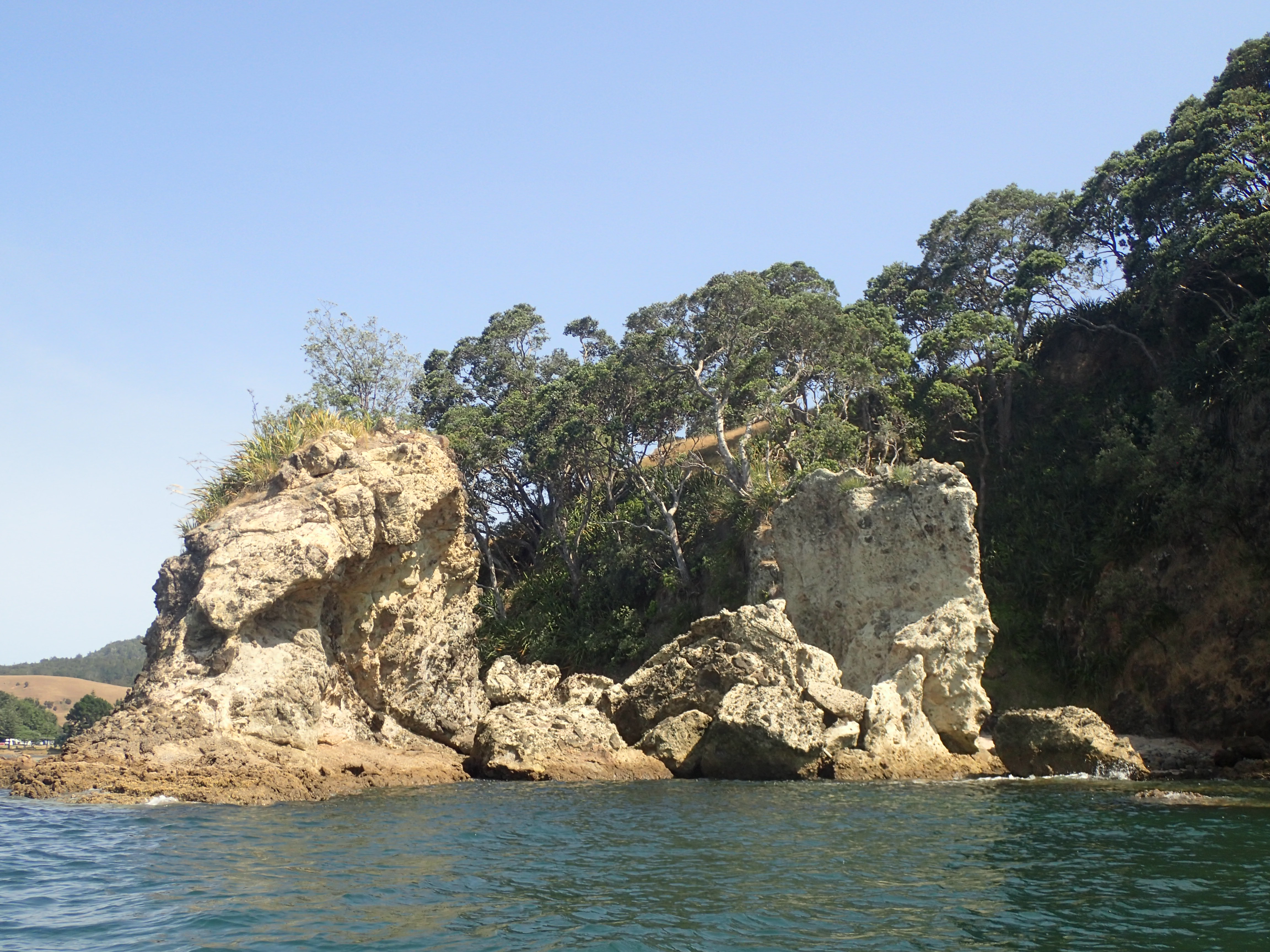 Spörings Arch (or what remains) Simpsons Beach / Wharekaho New Zealand / Aotearoa. ( L Mead, C Greaney, G Taylor). The arch collapsed " early in the 19th century" ( Source: Wall Display, Mercury Bay Museum, Whitianga, New Zealand / Aotearoa